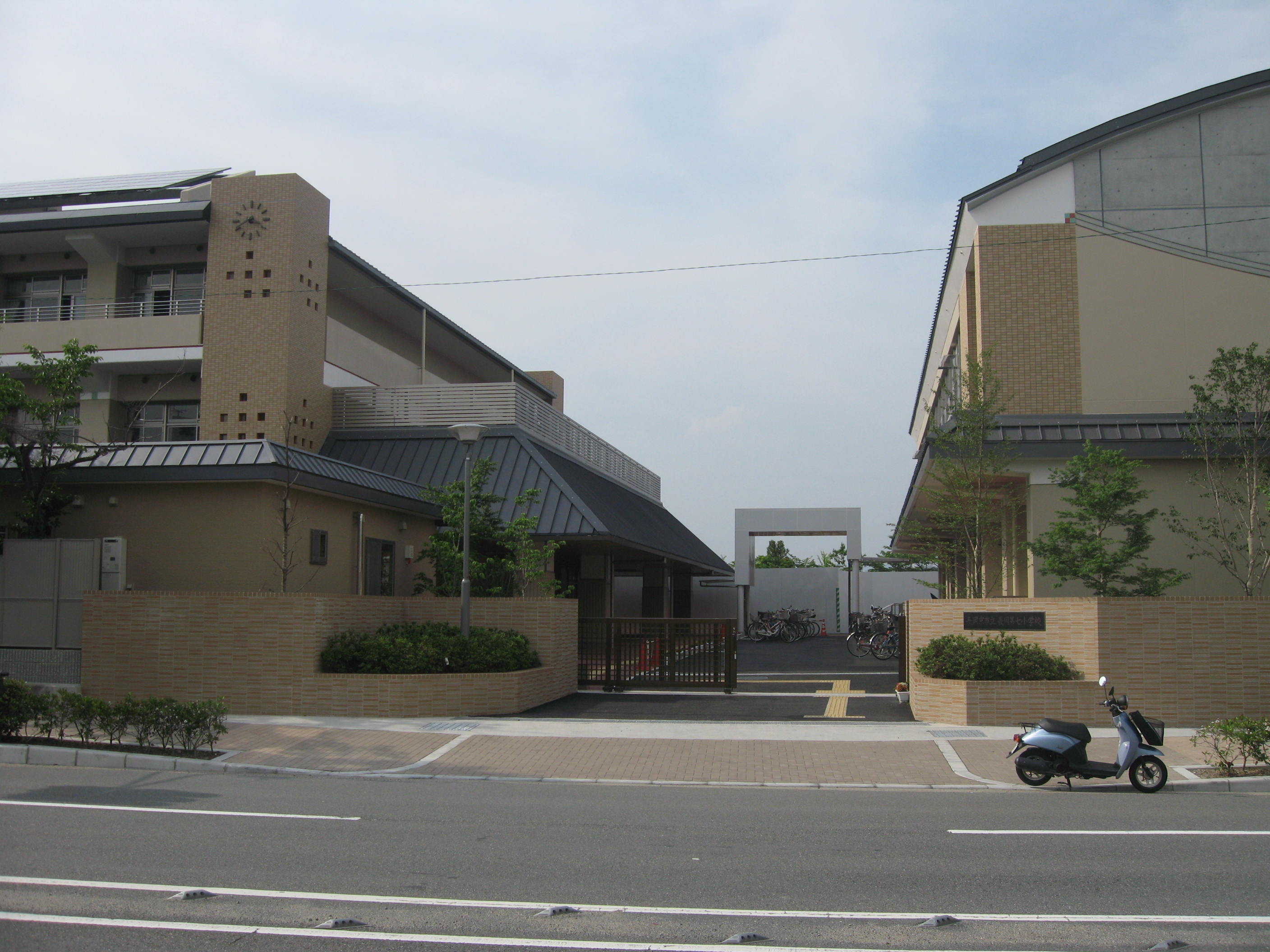 Nagaoka_7th_elementary_scool_02